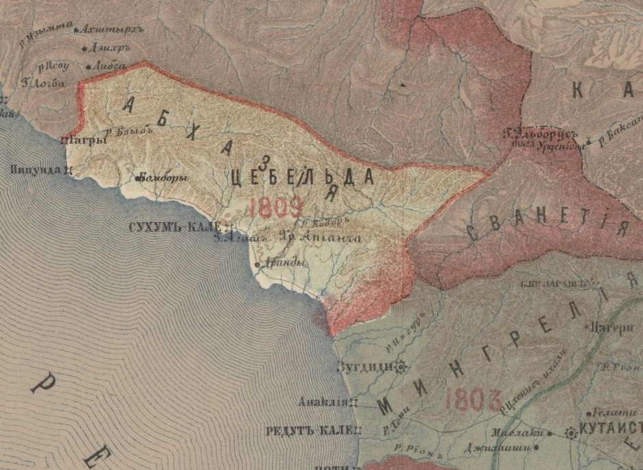 Abkhazia in the Map of Caucasus with the borders 1801—1813